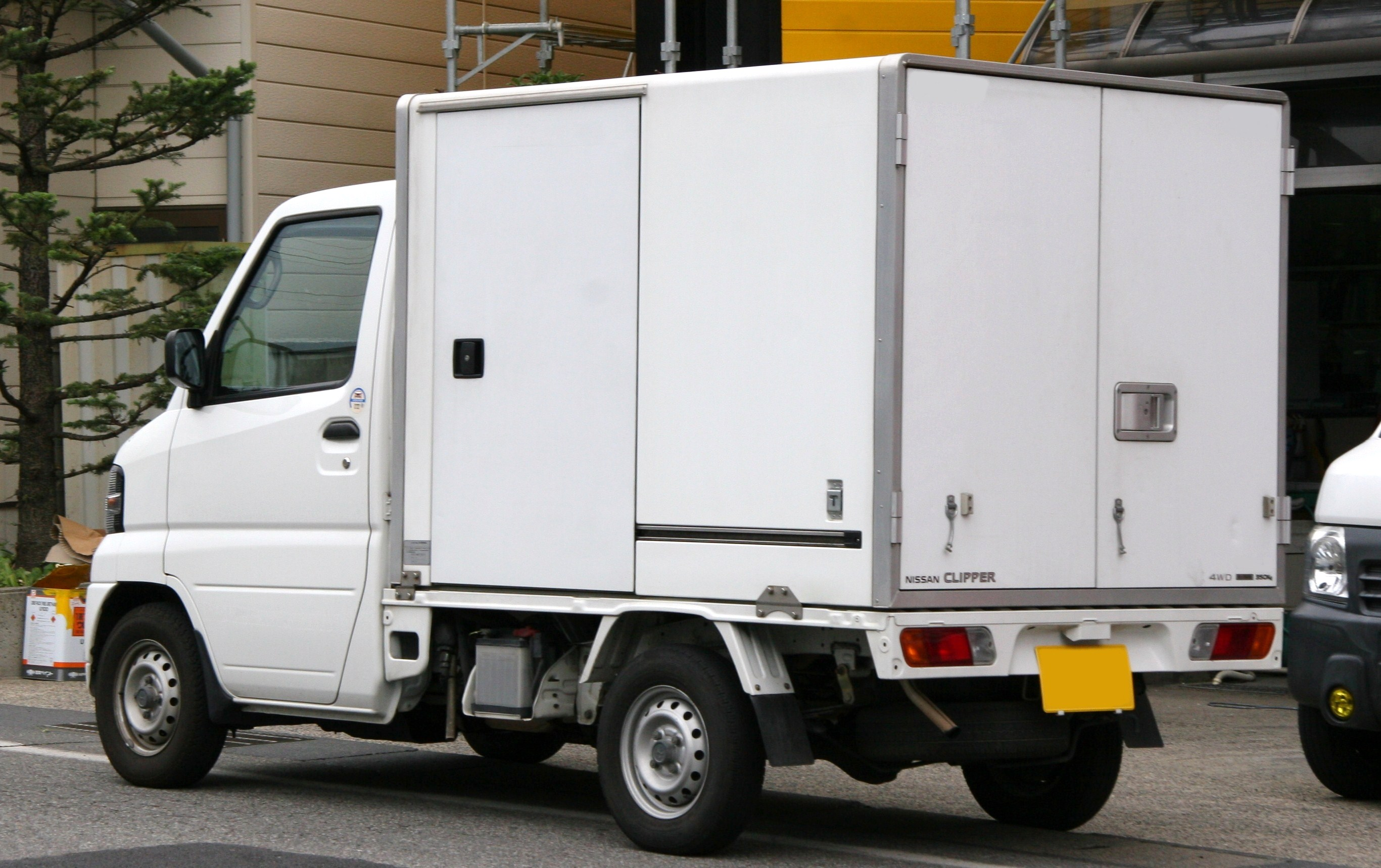 NISSAN CLIPPER